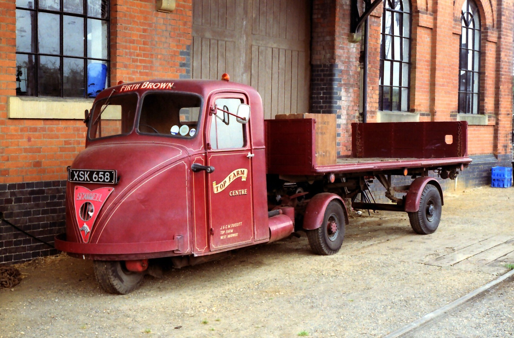 a Scammell Scarab from 1960